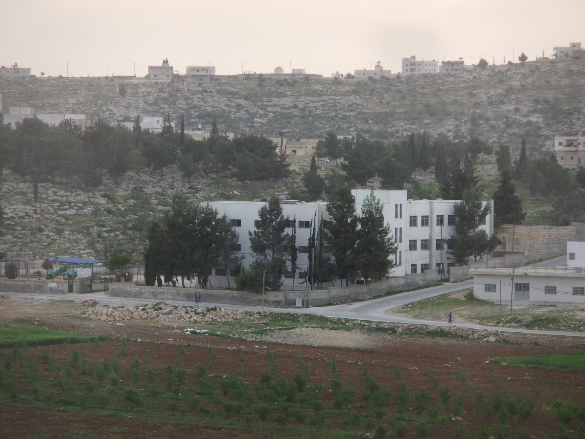 East Rabud school